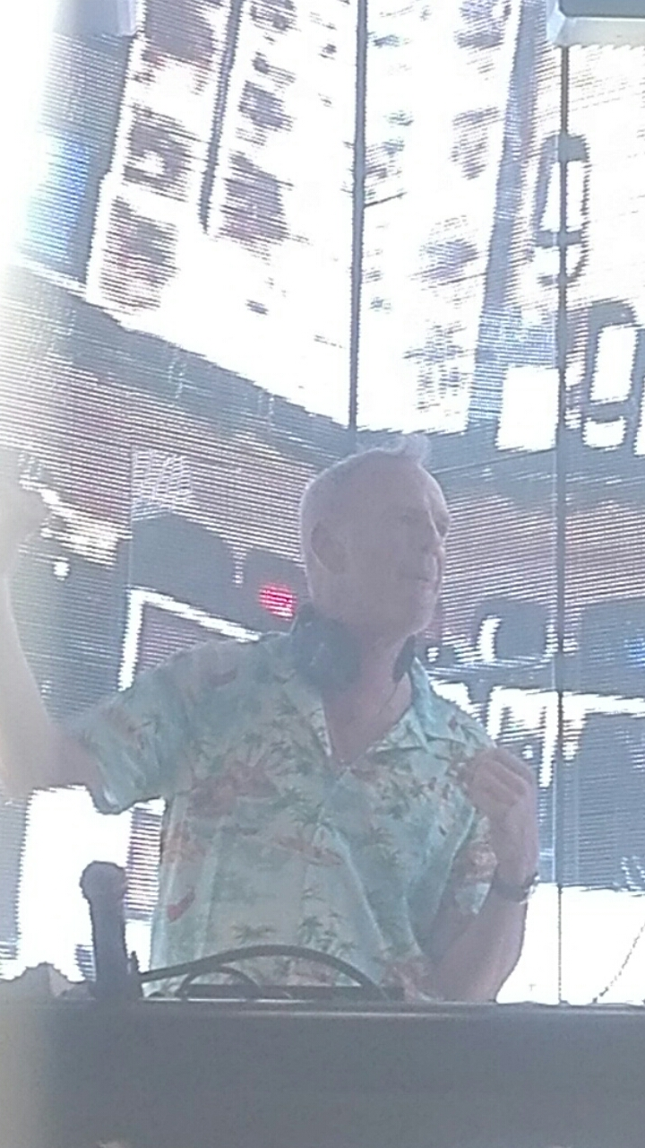 DJ Fatboy Slim during a show in Italy, 04/22/18